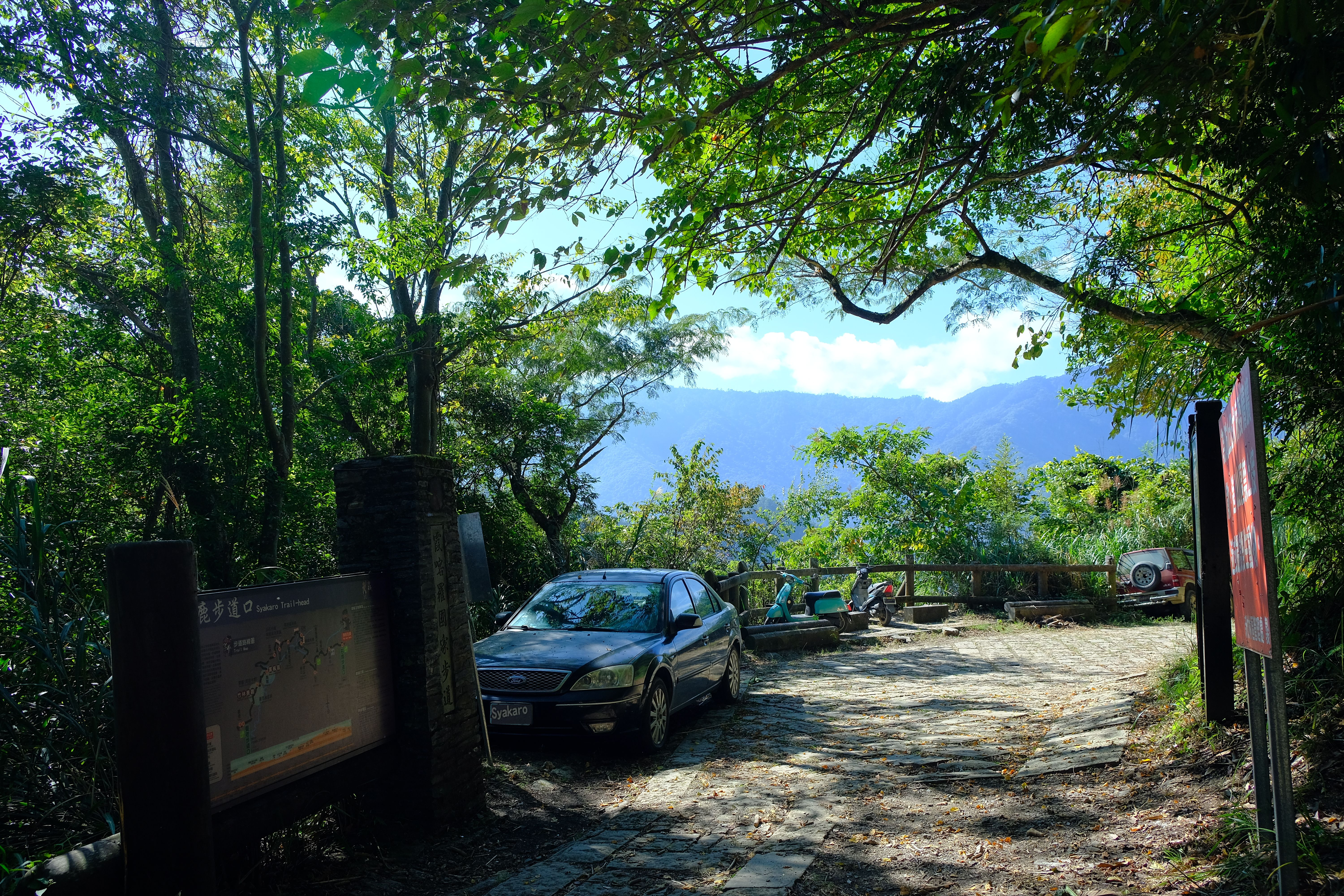 中文（台灣）: 2019 霞喀羅古道石鹿步道口 The Parking Lots at Xiakelo Historic Trail ShiLu Trailhead